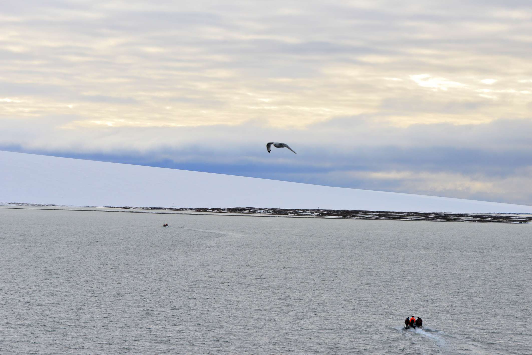 Schmidt Island (Severnaya Semlya, Russia; 81°12’N, 91°10‘E)